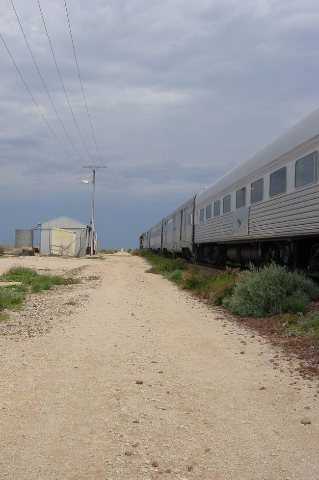 Indian-Pacific Railway